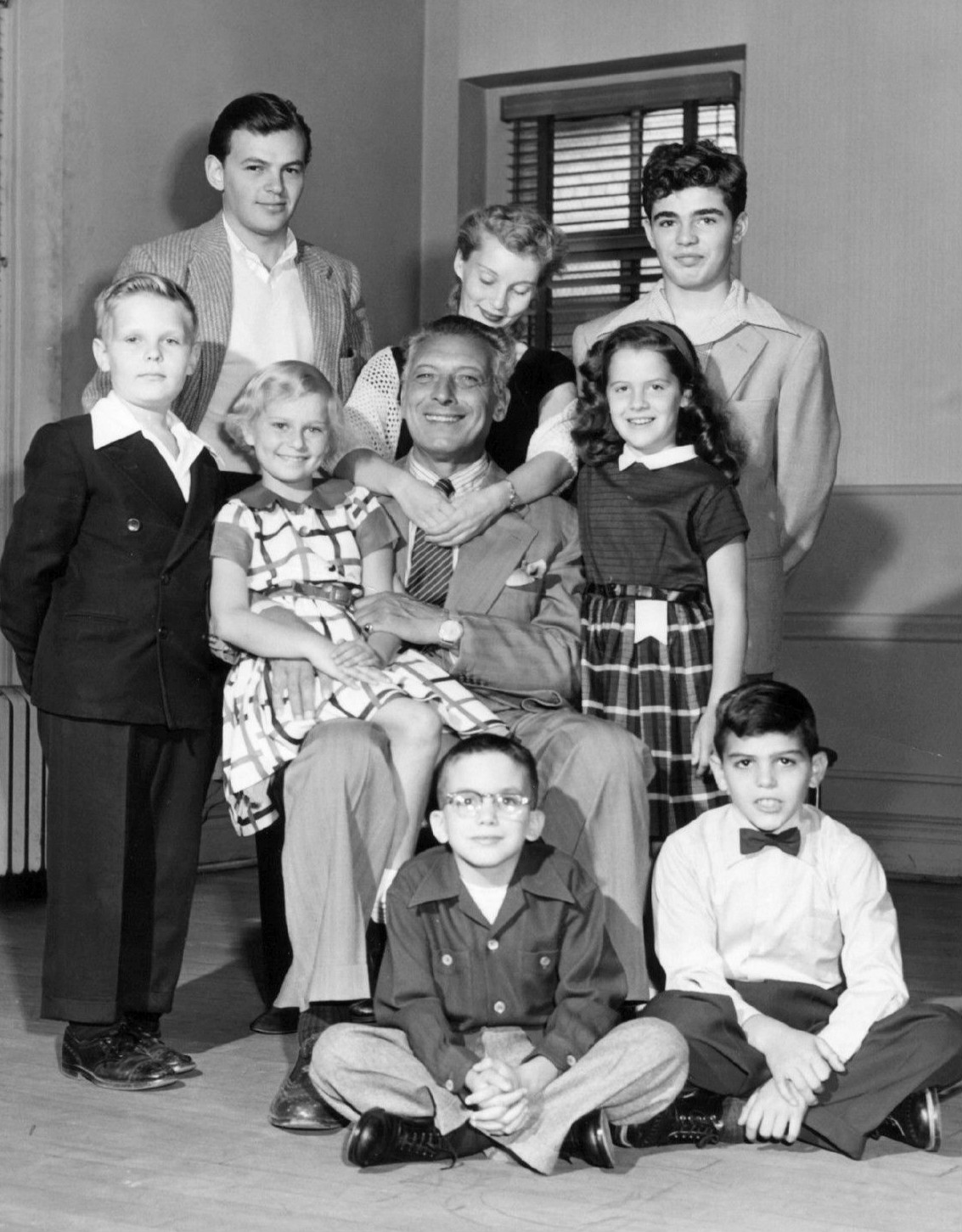 Cast photo of the very short-lived television comedy Bonino. Ezio Pinza (center) was the star of the show, which dealt with an opera singer trying to raise his six children after the death of his wife. The series lasted about 3 months on the air in 1953.